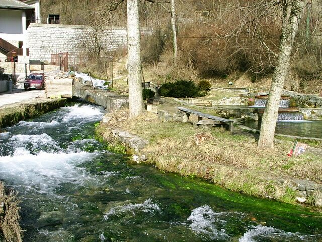 Plava voda spring near Travnik, BiH